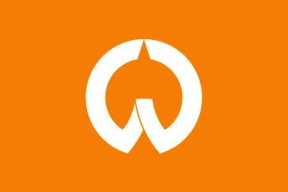 Flag of Yaotsu Gifu